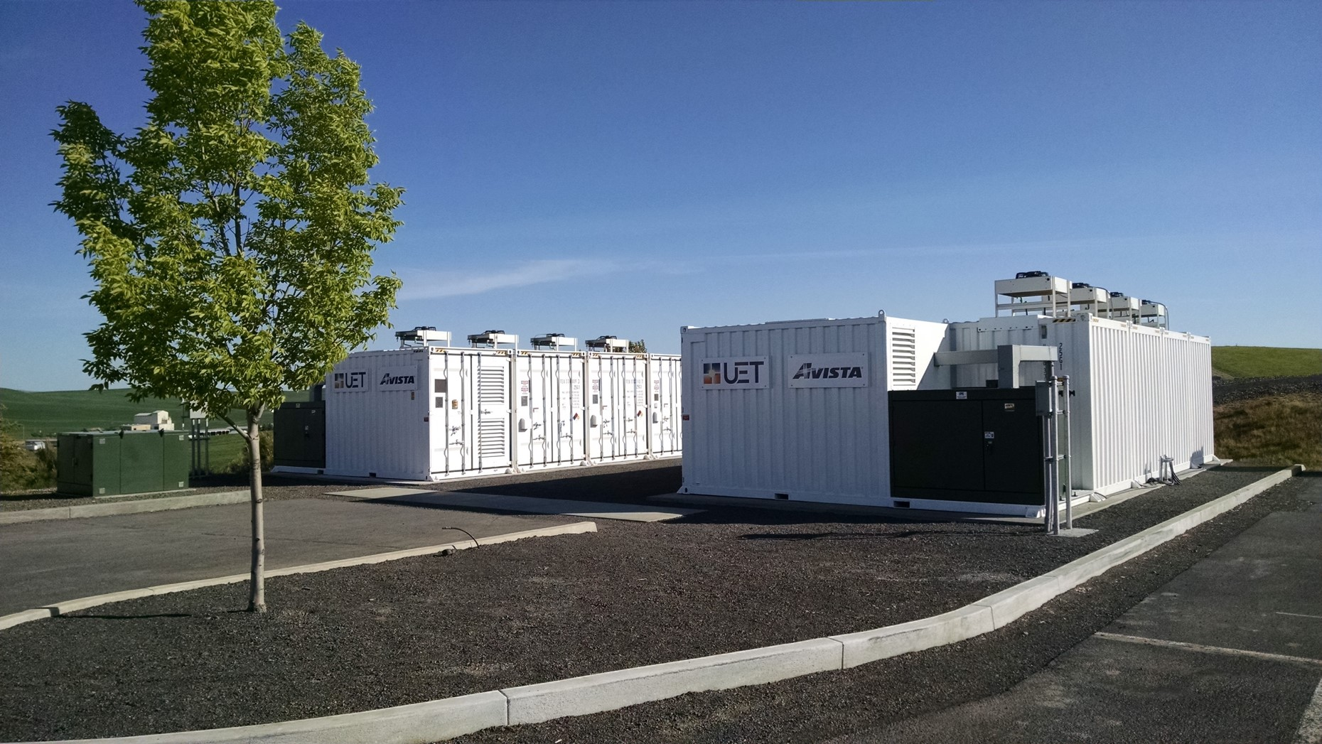 The 1 MW 4 MWh containerized vanadium flow battery owned by Avista Utilities and manufactured by UniEnergy Technologies. The energy storage system is installed in Schweitzer Engineering Laboratories, on Northeast Hopkins Court, Pullman, WA. The 4 MWh project consists of two 2 MWh strings. Each string consists of five 20 foot shipping containers, four of which hold a DC battery and one of which holds the power conversion system. Each DC battery container consists of two tanks, one with Anolyte and one with Catholyte, three cell stacks and the plumbing connecting the tanks to the stacks. Address: Schweitzer Engineering Laboratories, Northeast Hopkins Court, Pullman, WA